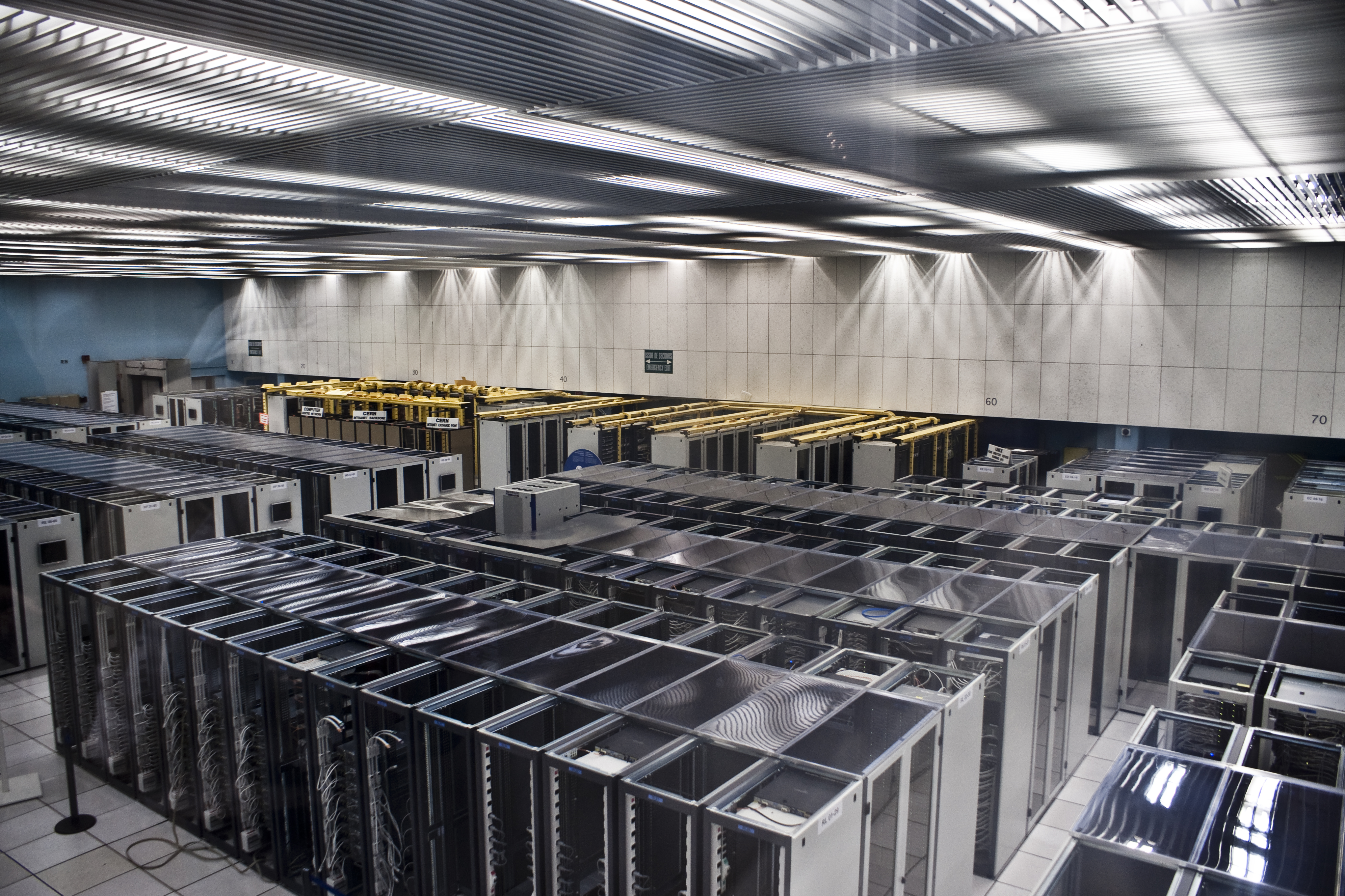 Server room in CERN (Switzerland)